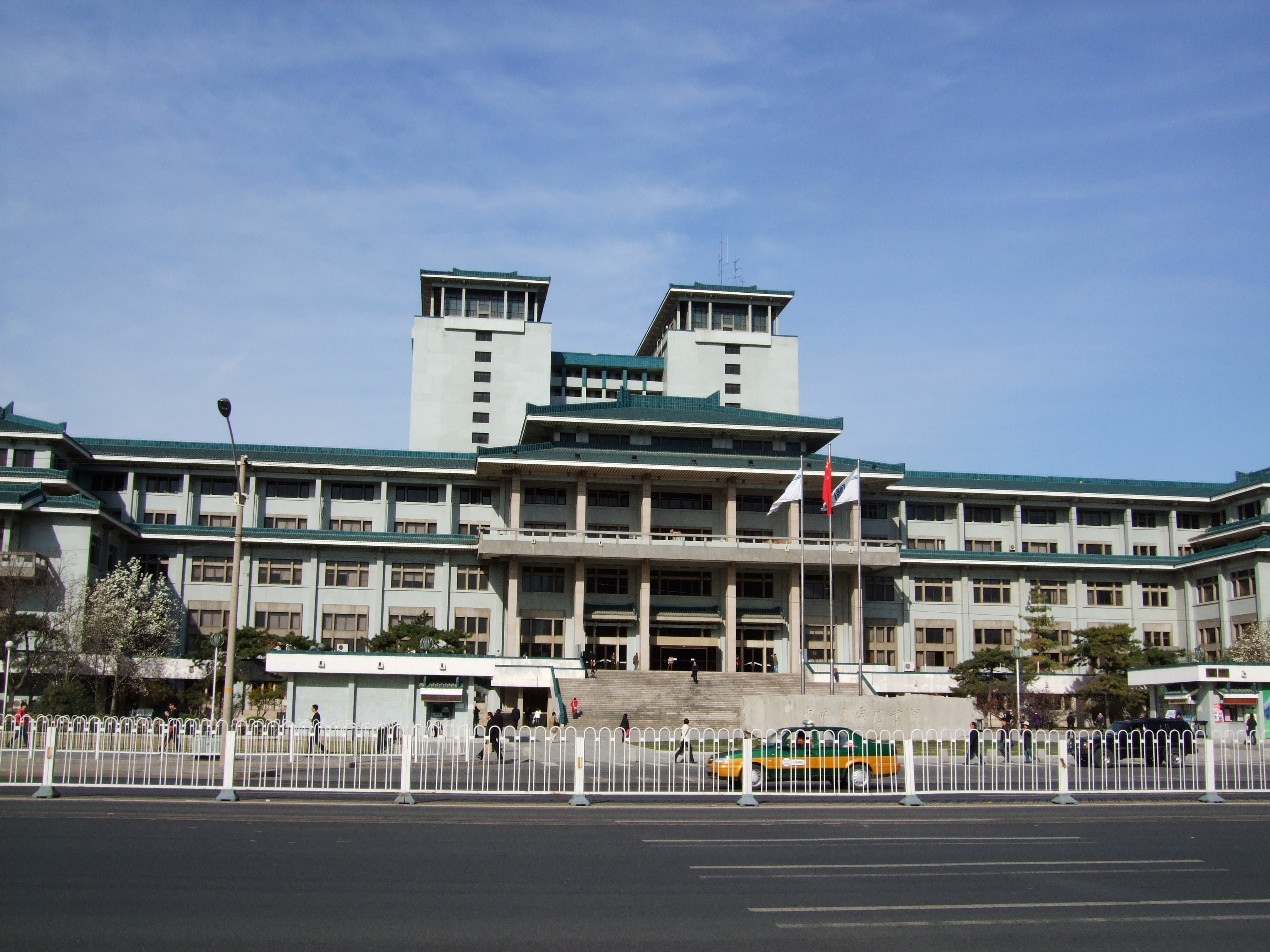 National Library of China